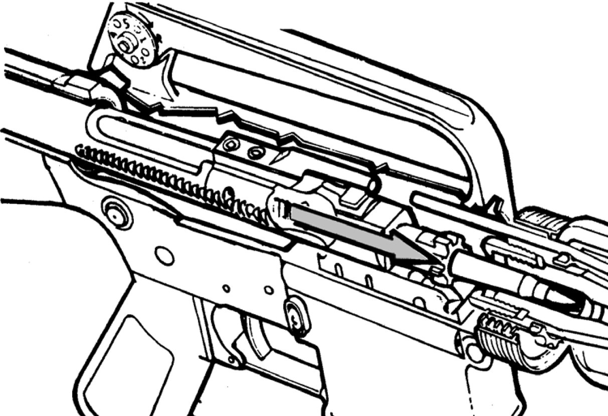 M16 rifle chambering